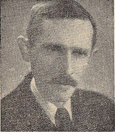 Marian Wróbel - chessplayer